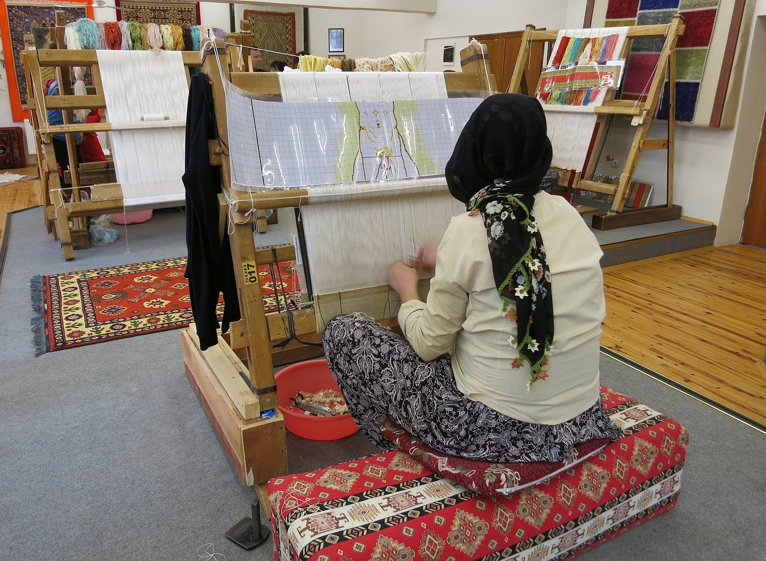 Carpet maker in Turkish carpet factory